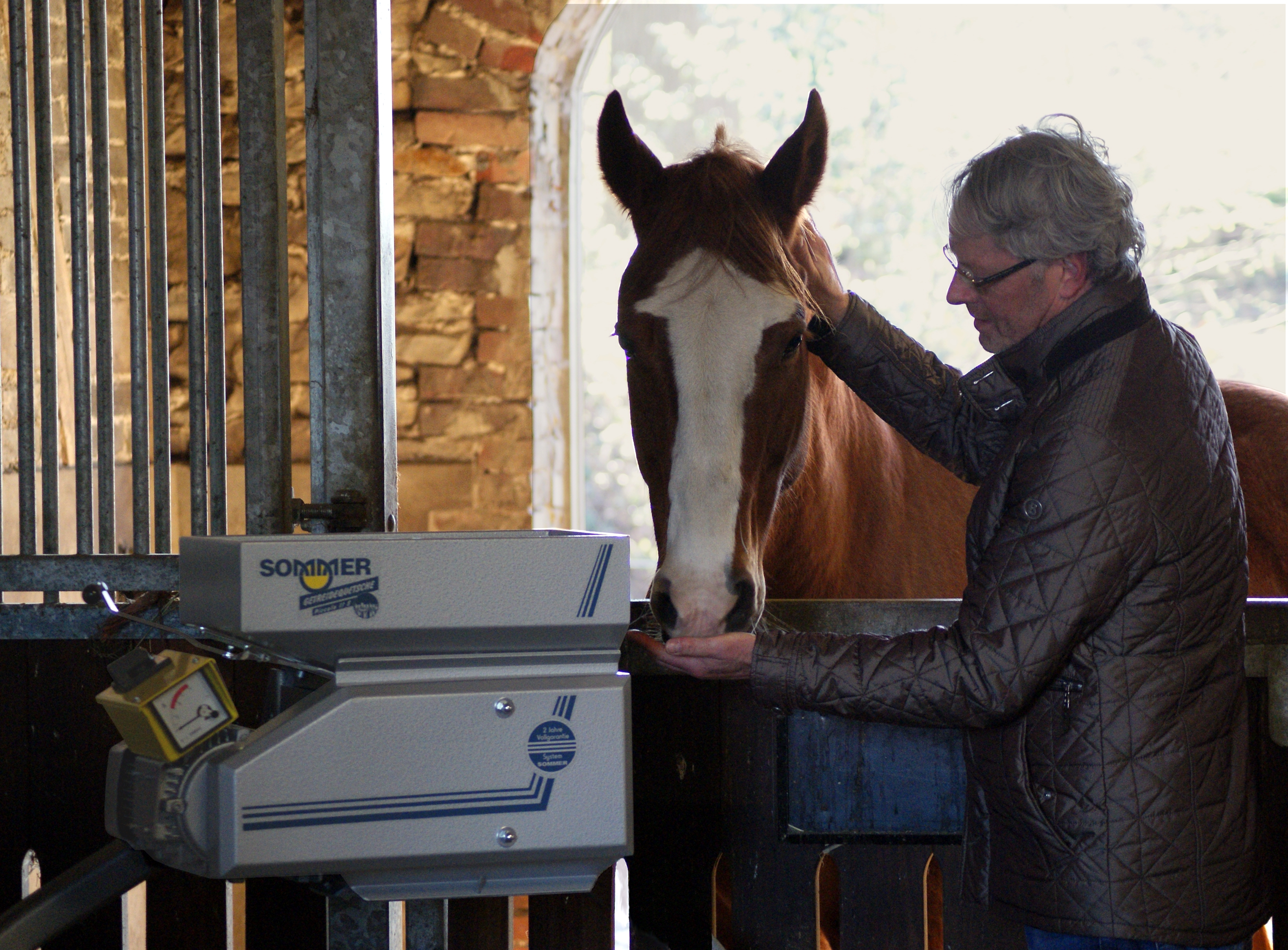 grain crusher, horse feeding, Haferboy